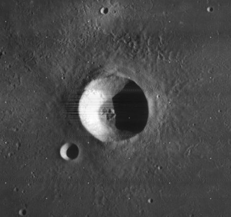 Diophantus, on the moon.